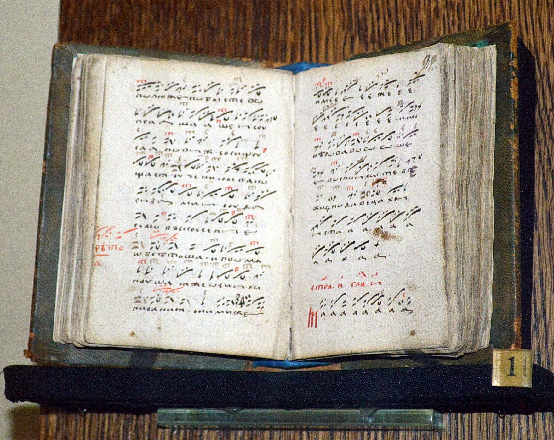 Chants of Feodor Krest'janin (16 c.), 17th century manuscript.